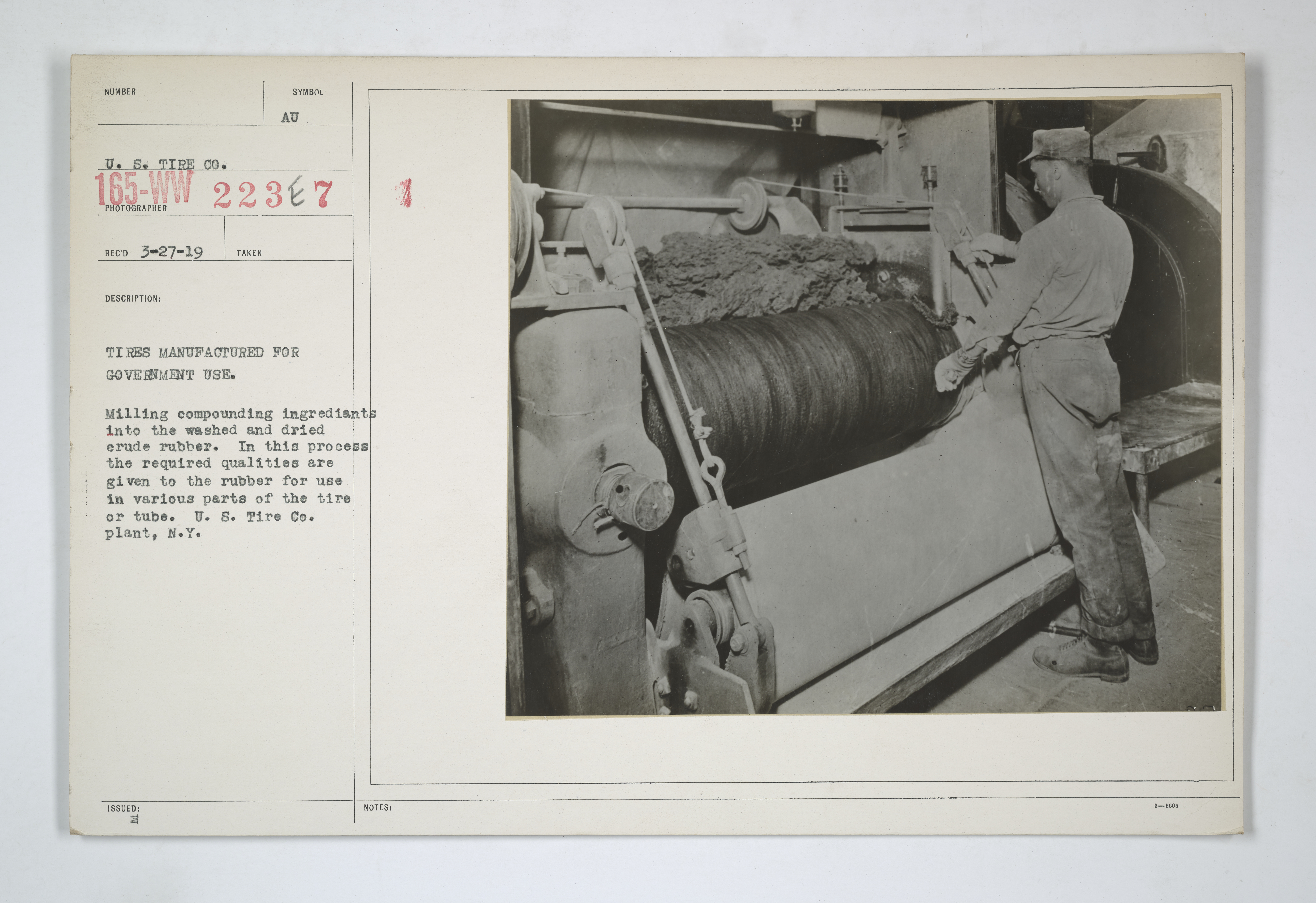 Scope and content: Original Caption: Tires manufactured for government use. Milling compounding ingredients into the washed and dried crude rubber. In this process the required qualities are given to the rubber for use in various parts of the tire or tube. United States Tire Company plant, New York.